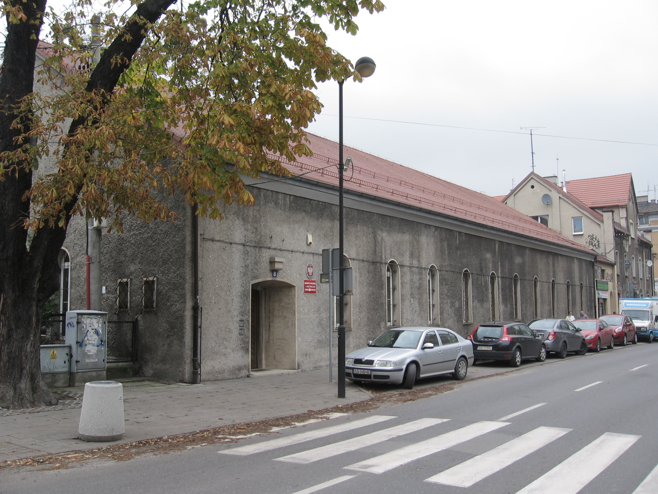 The building of Gliwice department of National Archive in Katowice, located in Gliwice, Zygmunta Starego street 8.